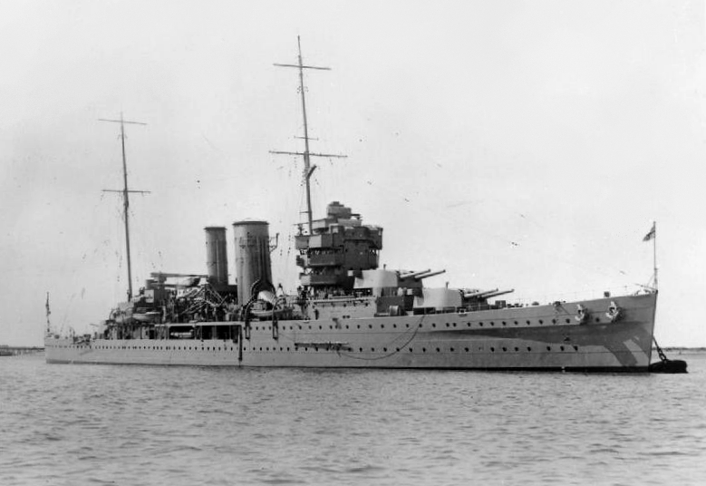 The British Royal Navy heavy cruiser HMS York (90) secured to a buoy.